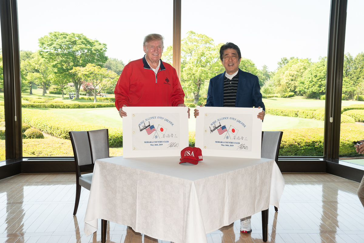 President Donald J. Trump and Japan Prime Minister Shinzo Abe pose for photos showing the golf hole flags they signed Sunday, May 26, 2019, at the Mobara Country Club in Chiba, Japan. (Official White House Photo by Shealah Craighead)